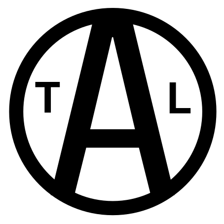 This symbol is used by many advocates of total liberation. It incorporates the traditional 'circle A' anarchist symbol, as well as an additional T (standing for total) and L (standing for liberation).